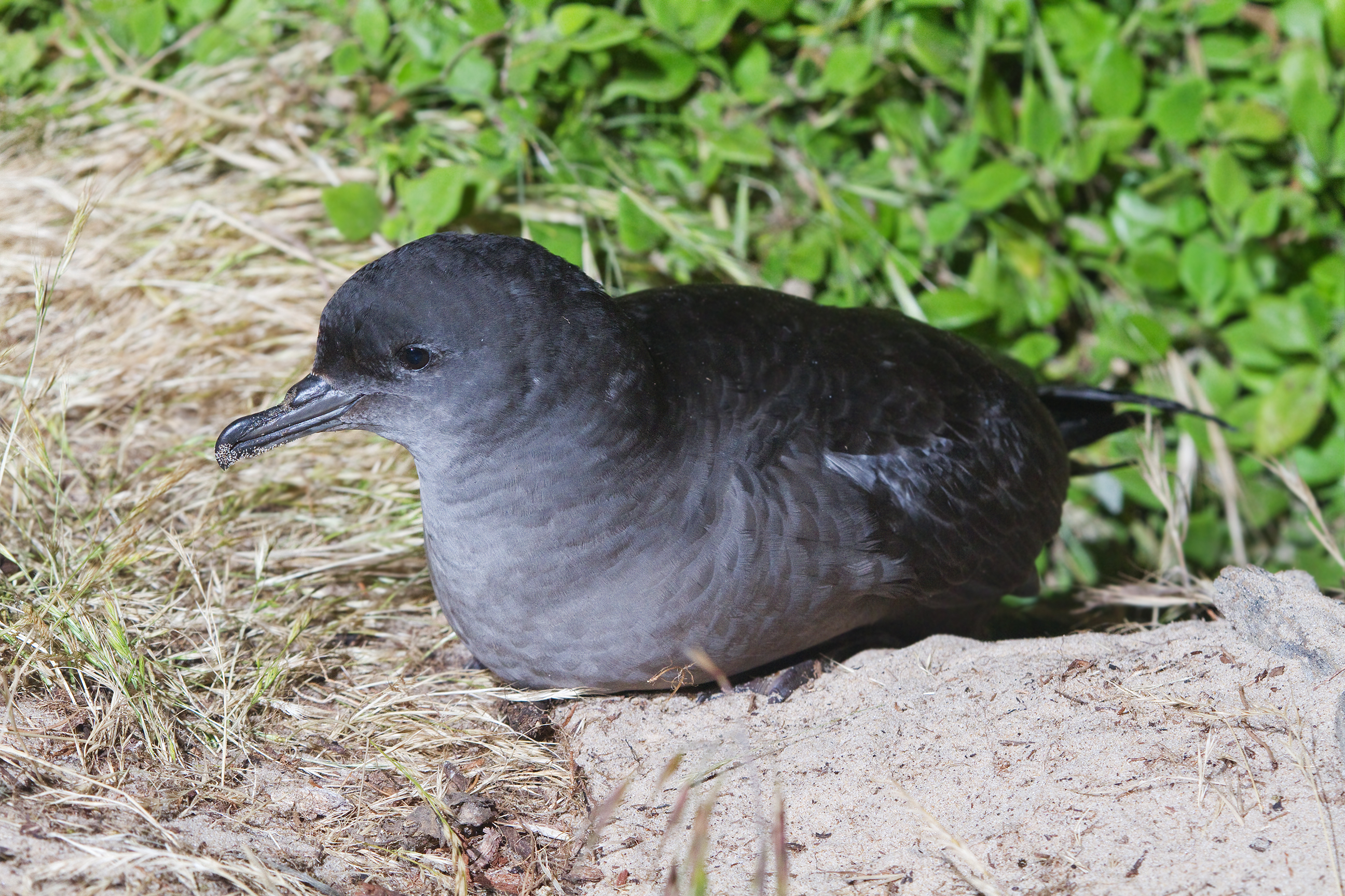 Short-tailed Shearwater (Puffinus tenuirostris) near Burrow, Bruny Island, Tasmania, Australia